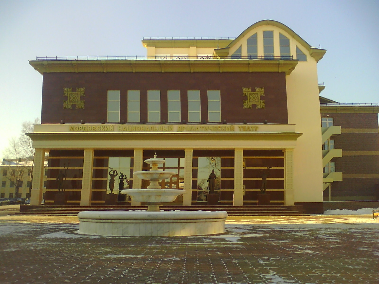 Mordvinian National Drama Theatre in Saransk, Republic of Mordovia, Russian Federation.